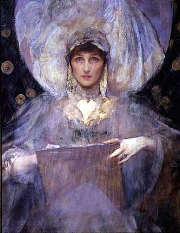 Portrait of Violet Manners, Duchess of Rutland